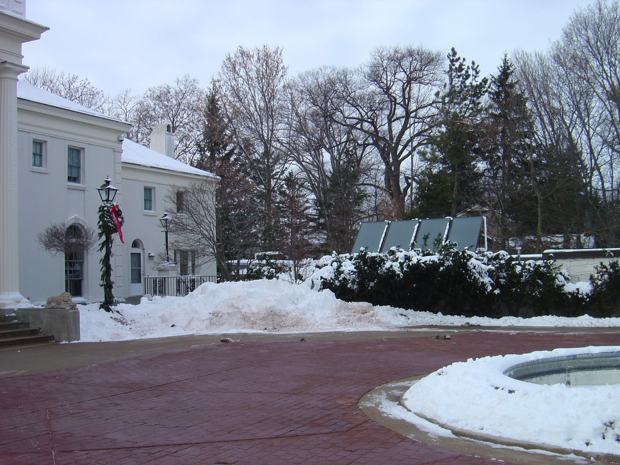 Solar panels on the side roof of the Wisconsin Governor's Mansion — installed during term of former Governor Jim Doyle.